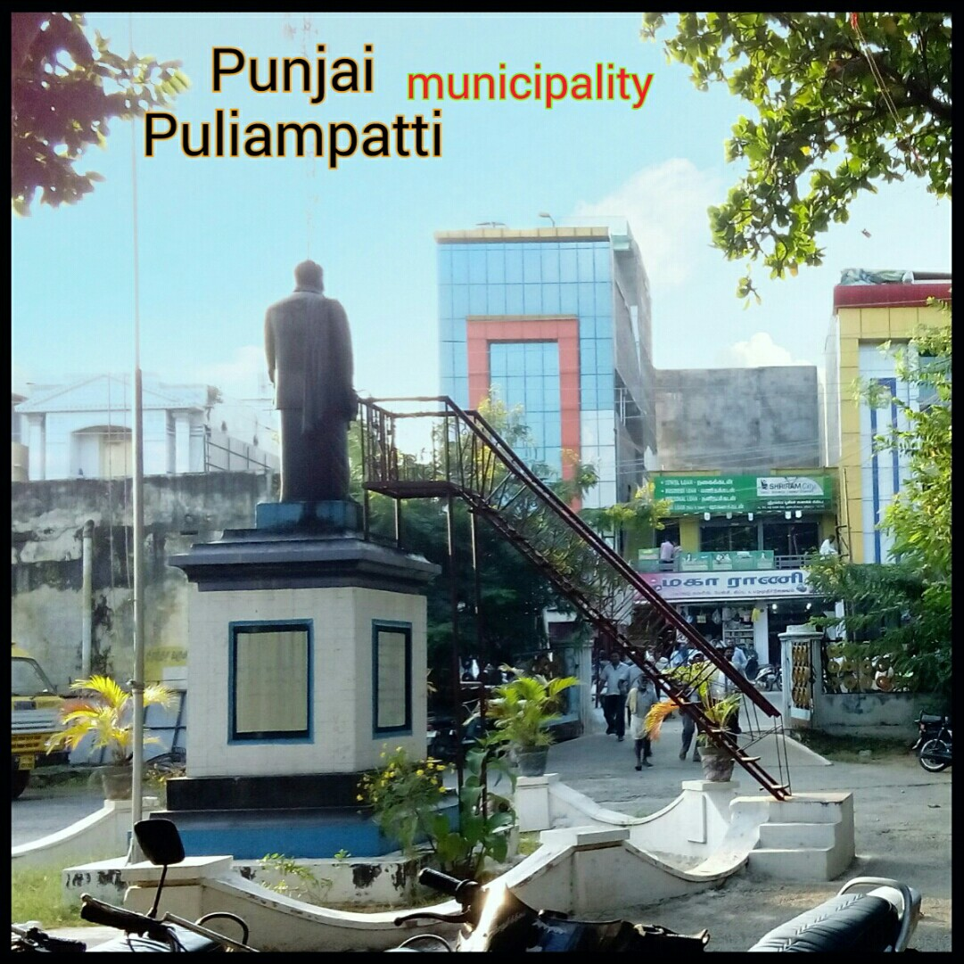 A view from municipality office